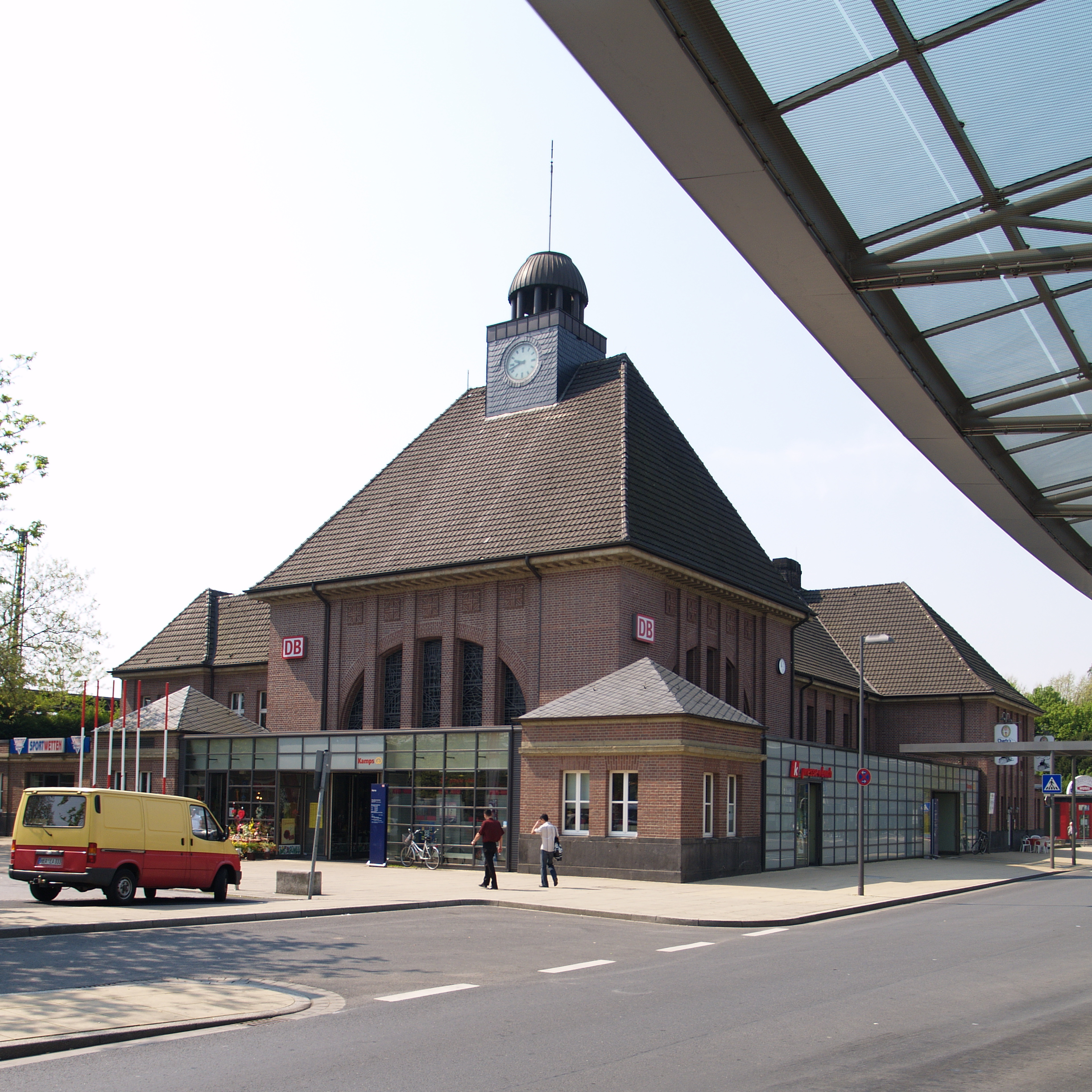 The east and north side of the trainstation in Herne, Germany